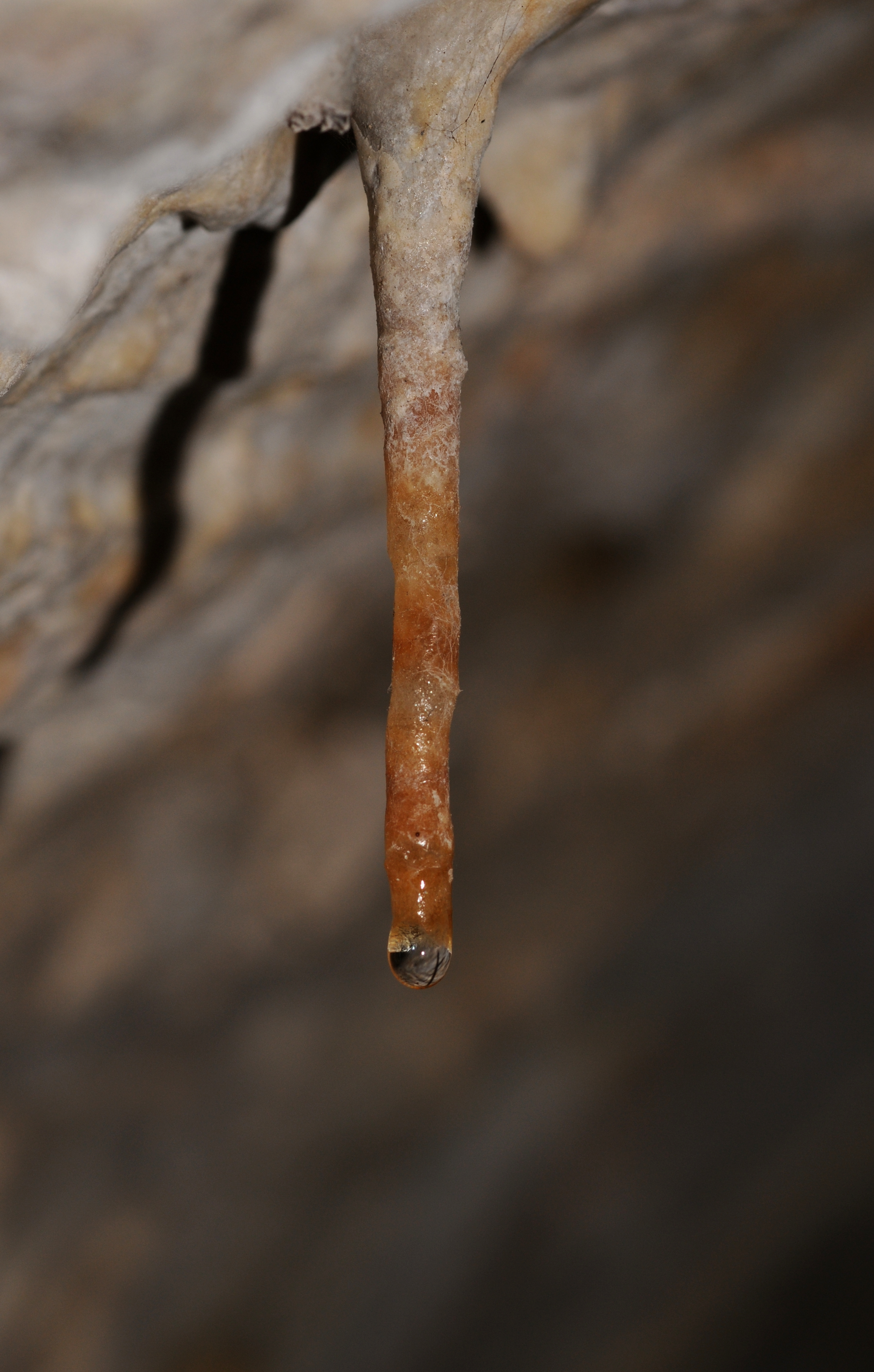 Stalactite taken inside the Salbert fortifications.